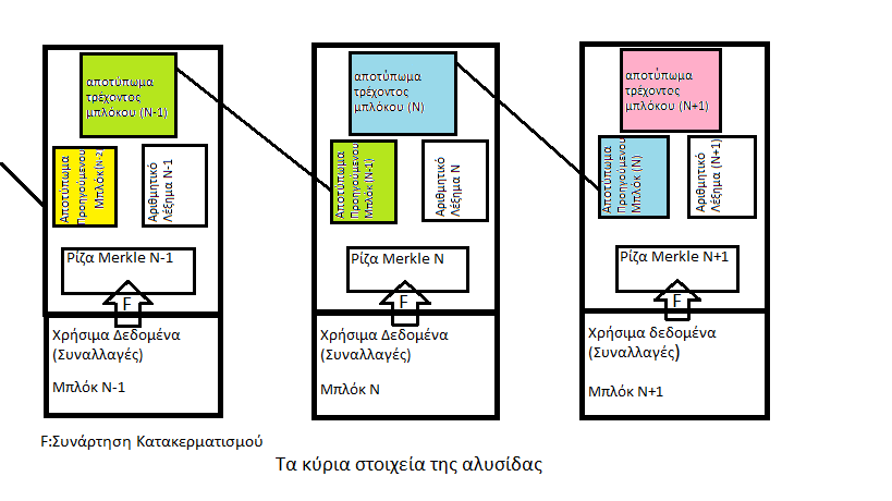 The basic structure of a blockchain.